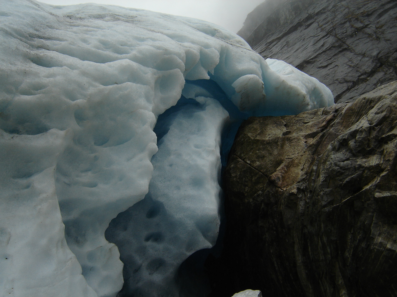 Folgefonna's ice front Bondhusbreen, Norway - ice & rock